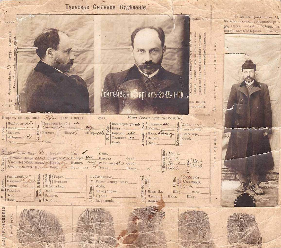 Leiteisen Gavriil Davydovich. Dossier of the 3rd Branch